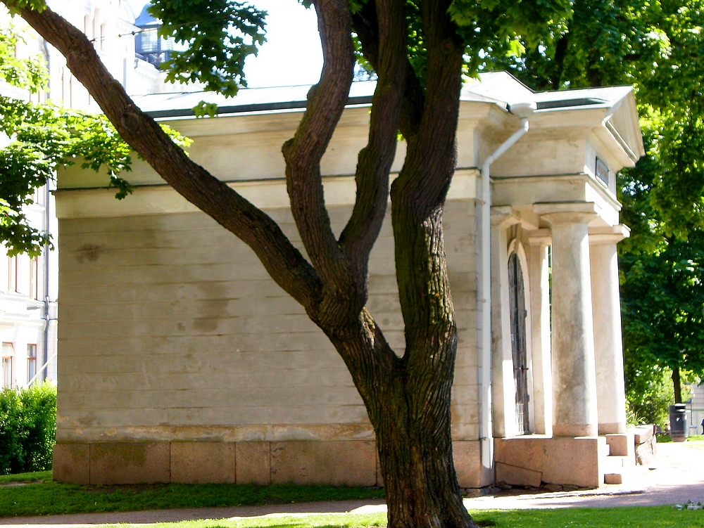 The tomb of Johann Sederholm in Helsinki, Finland, seen from the street "Lönnrotinkatu"